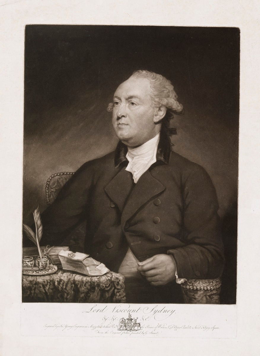 Mezzotint engraving of Thomas Townshend, 1st Viscount Sydney (1732–1800) after a portrait painting by Gilbert Stuart. The sitter is portrayed at half-length, seated in an upholstered armchair studded with small nails, his body is nearly full-front with the head and eyes turned three-quarters left. He wears a dark coat with a collar of velvet, his coat being buttoned across his chest, but opened below, showing a waistcoat. His stock and shirt ruffles are of white muslin and his wig or hair is powdered. His face is plump and his complexion "beefy," expressing mental and physical activity with a look of hauteur. He sits beside a table covered with a cloth on which is an inkstand, two quill pens, a tray with a piece of sealing-wax, and a packet of letters, with one unfolded. His left arm rests upon the chair arm and the left hand, partially closed, is shown, but the right hand is concealed by the table. The background is plain.